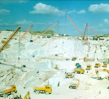 Rajnagar-Rajsamand